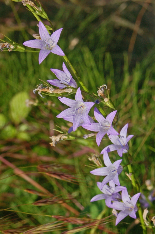 Campanula rapunculus - Cerreto Ratti, Alessandria, Italy